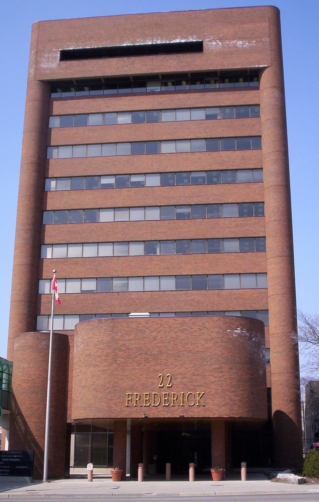 Oxlea Tower office building at 22 Frederick Street, Kitchener, Ontario. Former home of Kitchener City Hall.